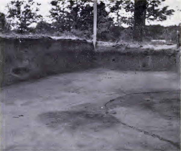 Photograph of Riverside Site, Menominee County, MI, showing extent of 1957 excavations